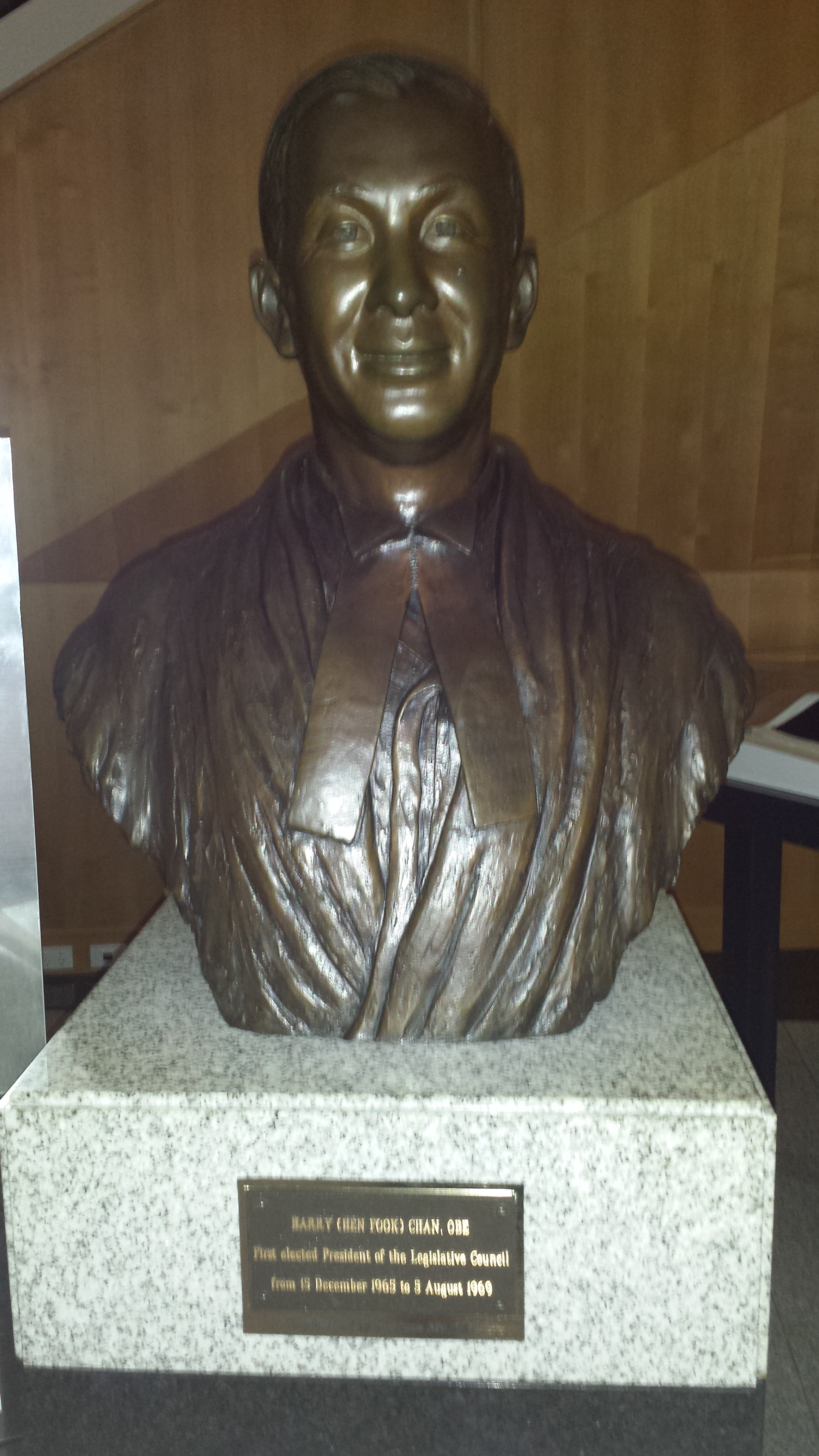 Bust of Harry Chan is located in the foyer of Parliament House Northern Territory.